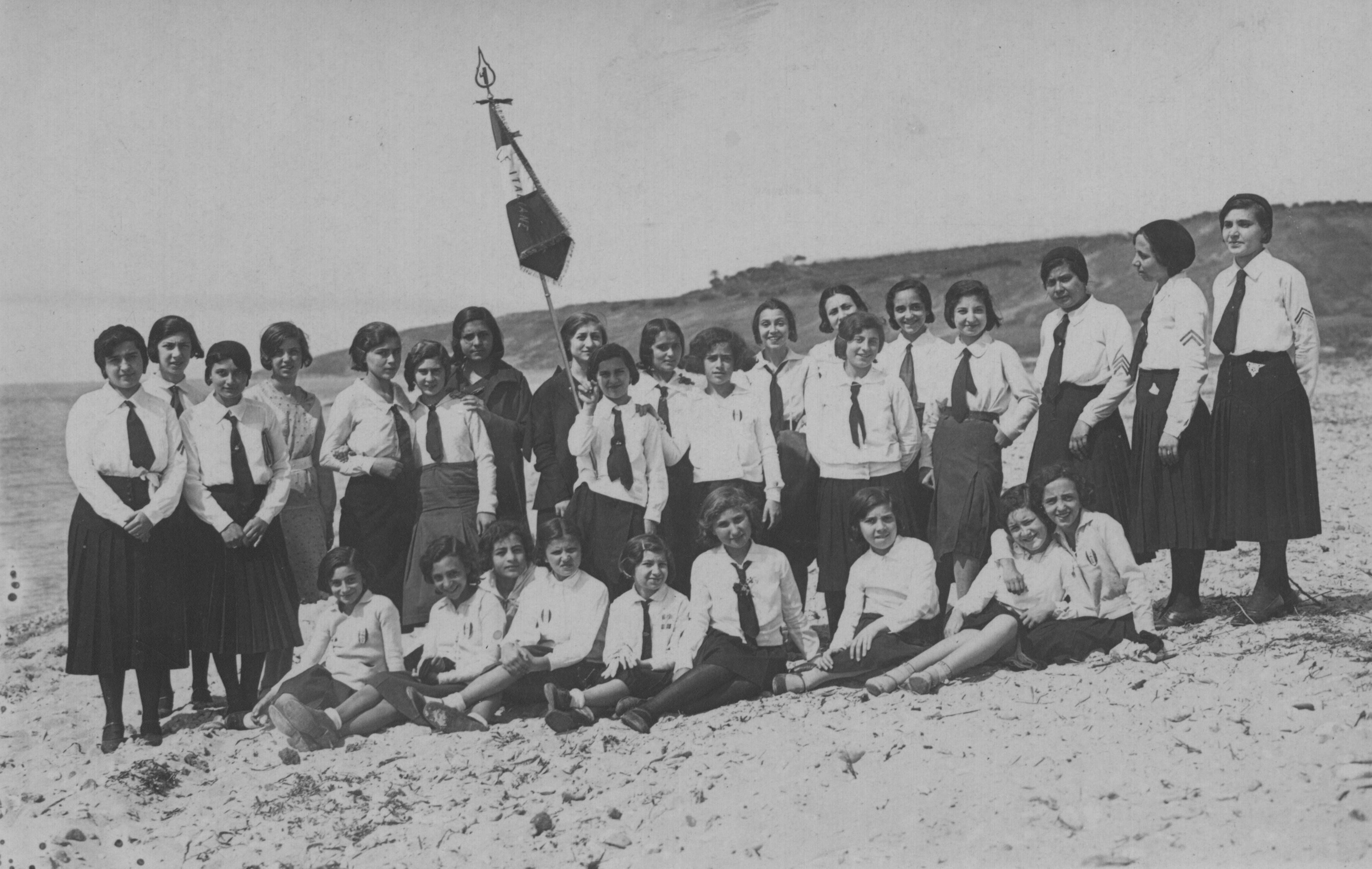 Group of "Piccole Italiane" (age from 6 to 13 years).